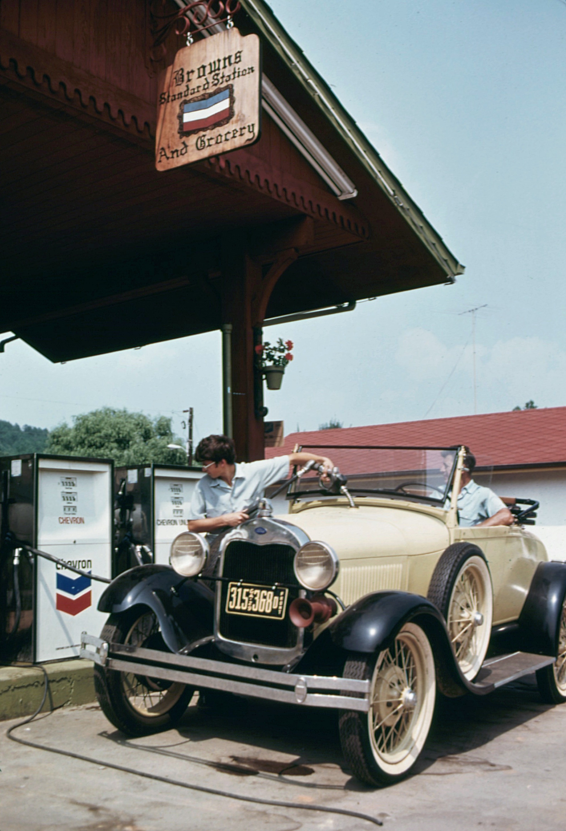 WARREN BROWN, OWNER OF THE SERVICE STATION AND GROCERY ON MAIN STREET IN HELEN, GEORGIA, SITS IN A 1929 FORD WHILE HIS SON GASSES THE CAR, ONE OF MANY HE HAS COLLECTED OVER THE YEARS, 07/1975